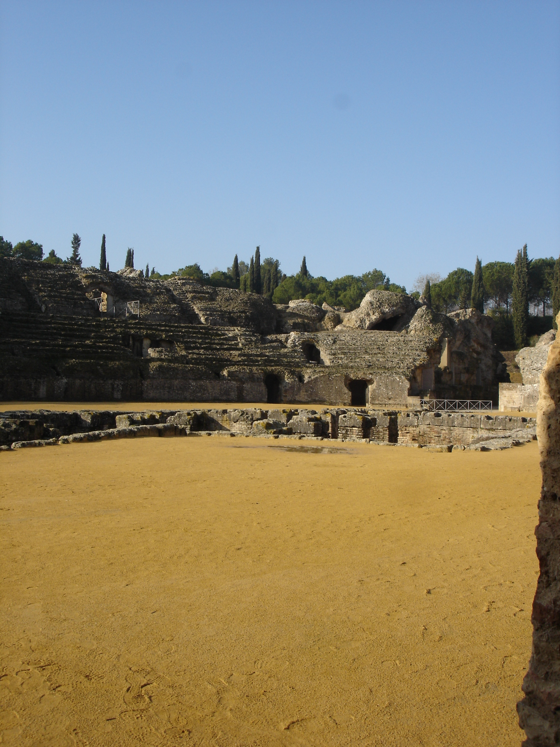 Arena of the amphitheatre in Italica, Spain. Copy frm English wiki: originally uploaded by user:Dr. Ebola